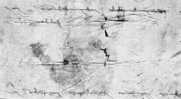 Tibetan Legal Document from Sikkim